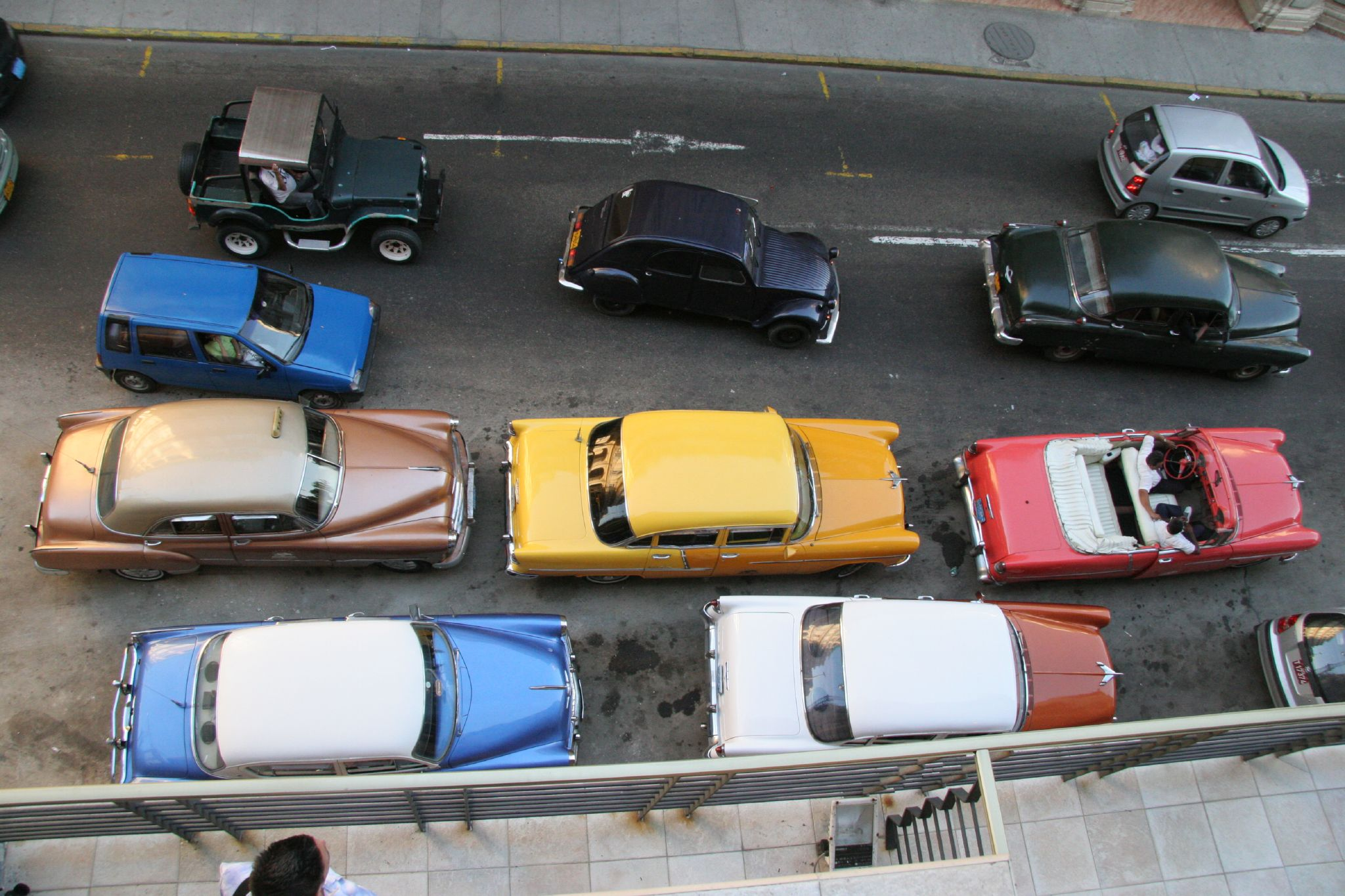 Old cars in Havana